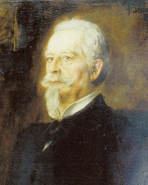 The painting was painted Franz von Lenbach in Munich. It ist a portrait of Otto von Faber du Faur.